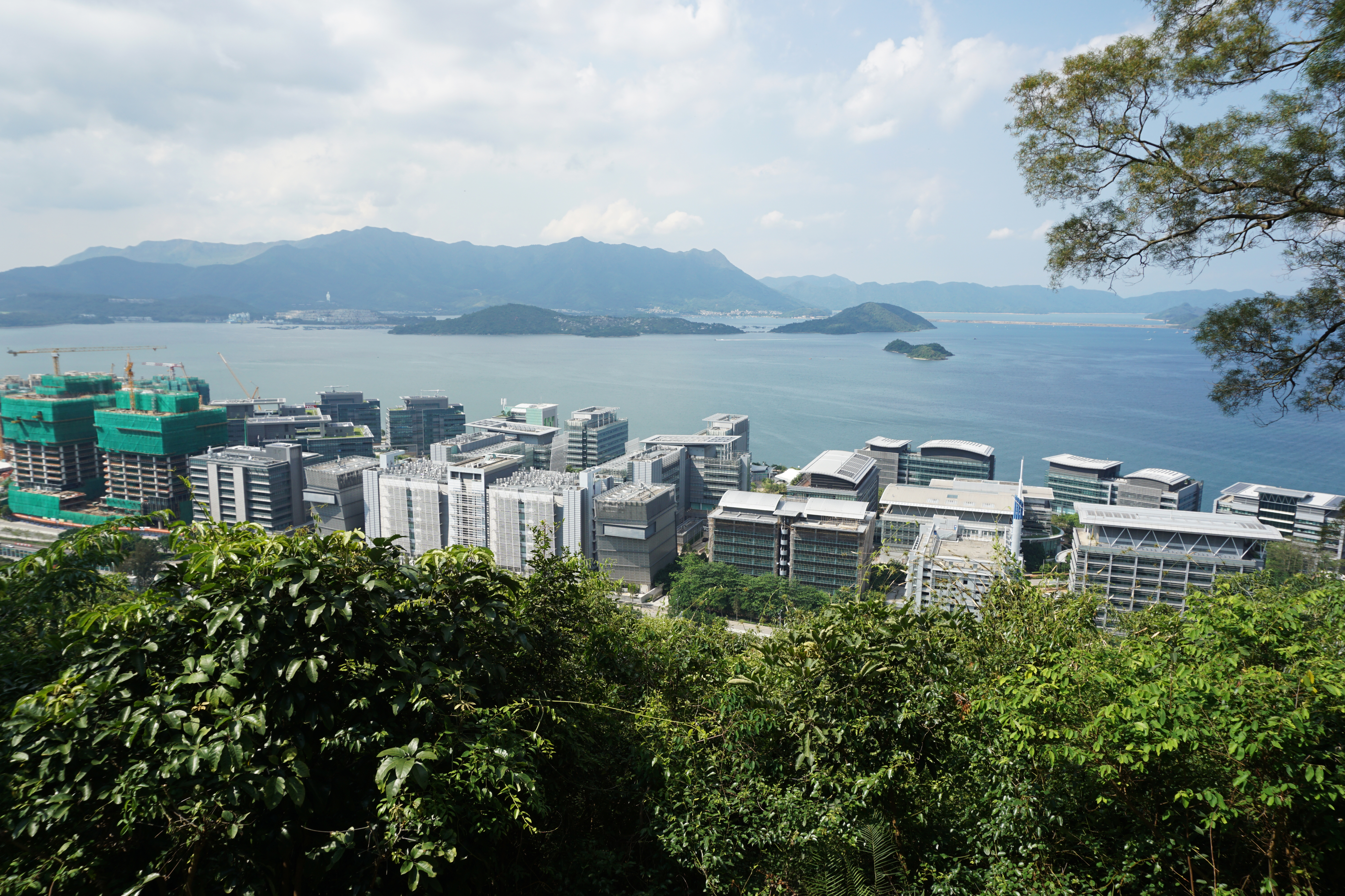 Science Park in Ma Liu Shui, Hong Kong.